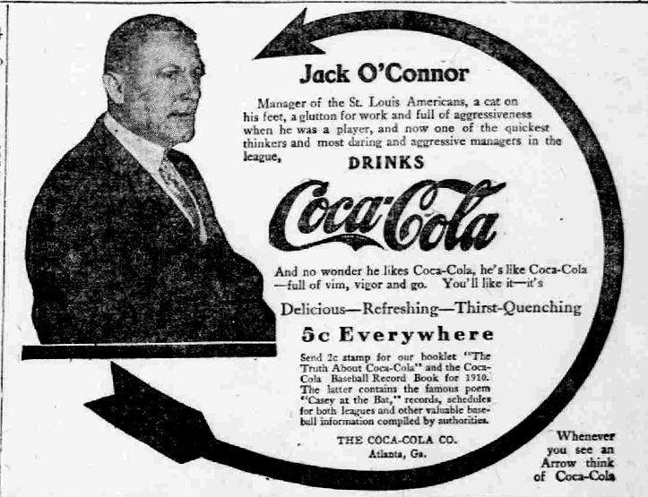 Coca-Cola ad from 1910 showing Jack O'Connor, baseball player/manager.